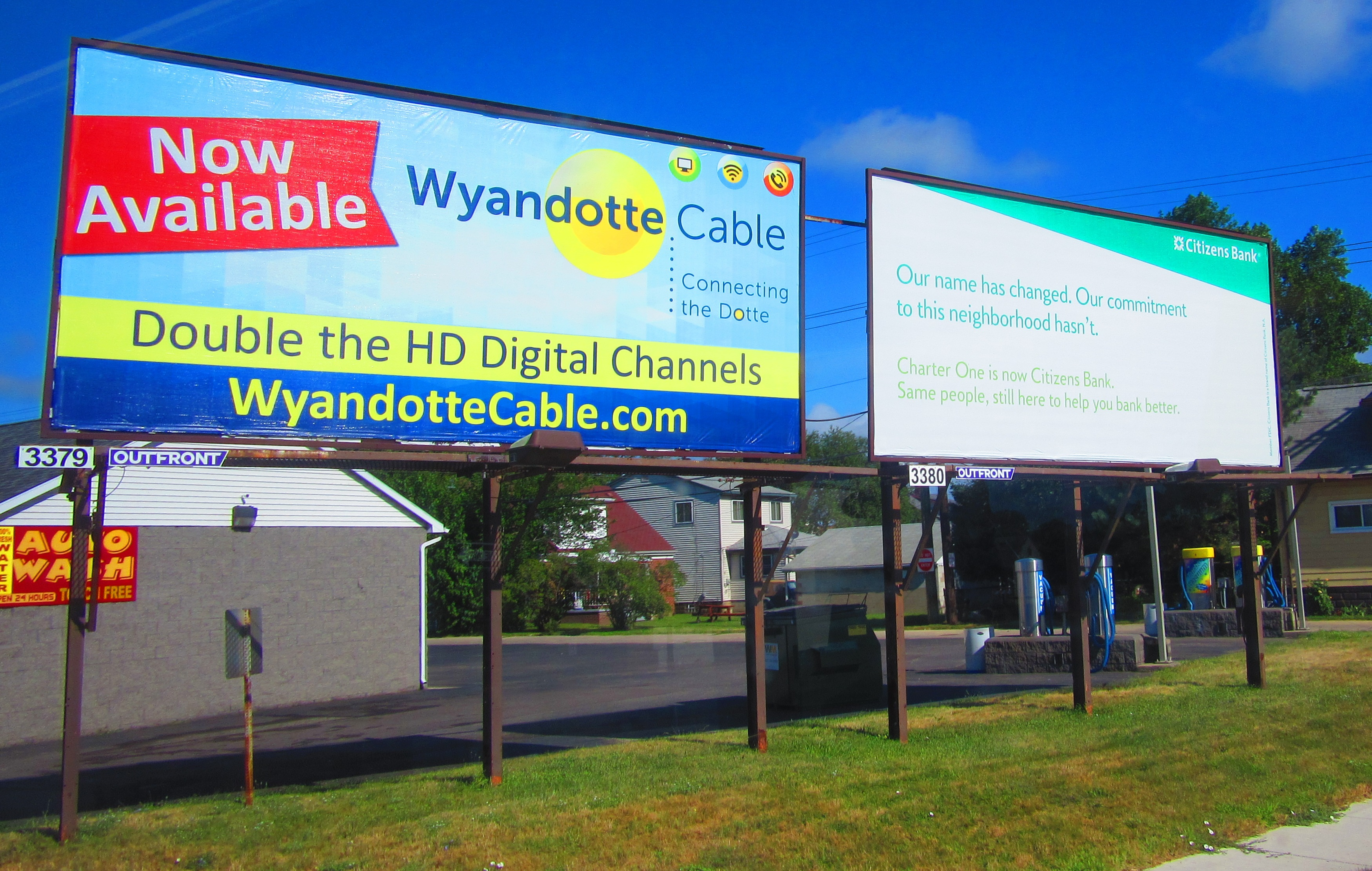 Outfront Media billboards in Wyandotte. Taken by me on Monday, August 3rd, 2015.